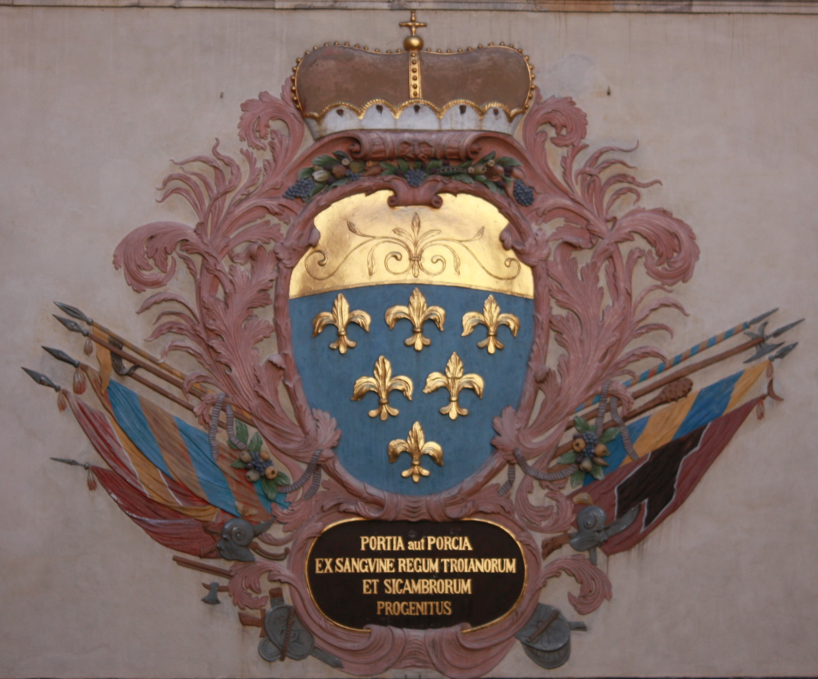 Schloss Porcia - Arcade-court - Coat of arms Locality: Spittal an der Drau Community:Spittal an der Drau